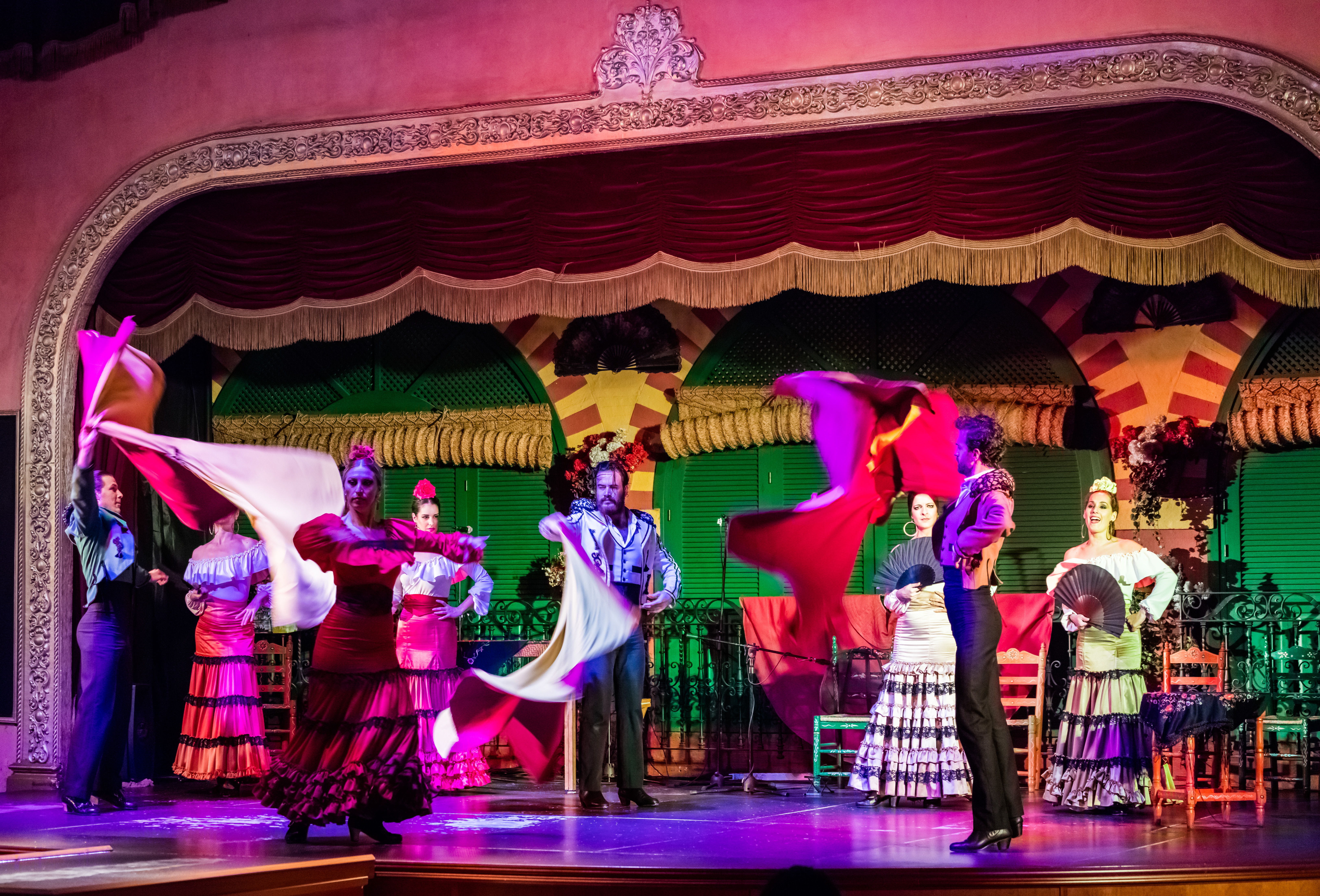 Flamenco performance in Palacio Andaluz, Sevilla, Spain